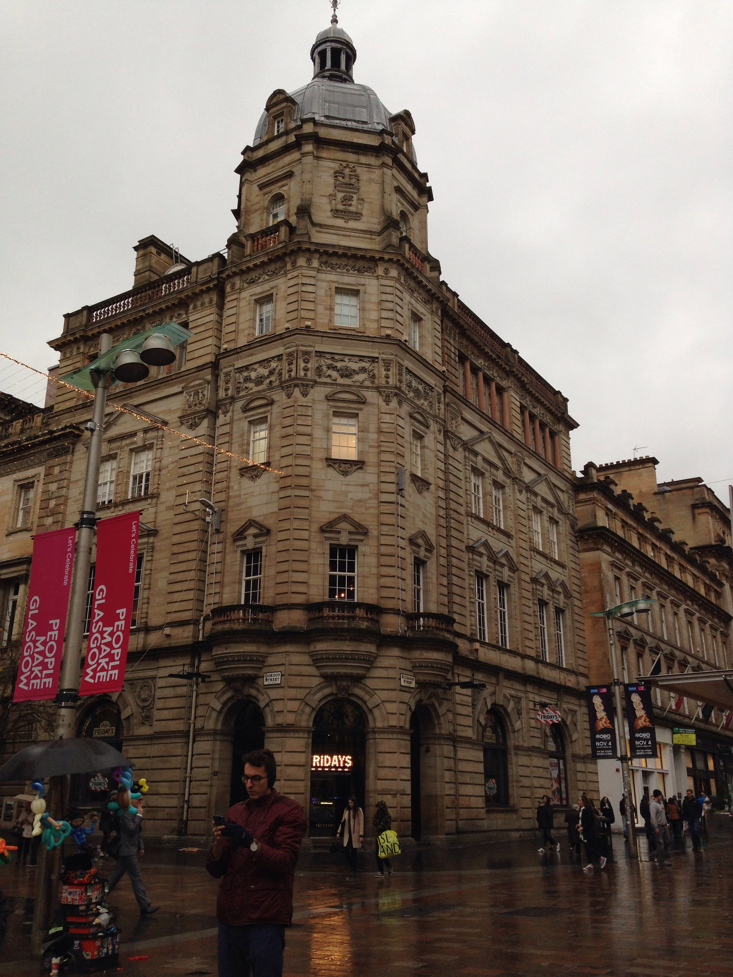 Category A listed 113-115 (ODD NOS) BUCHANAN STREET AND 4 GORDON STREET.